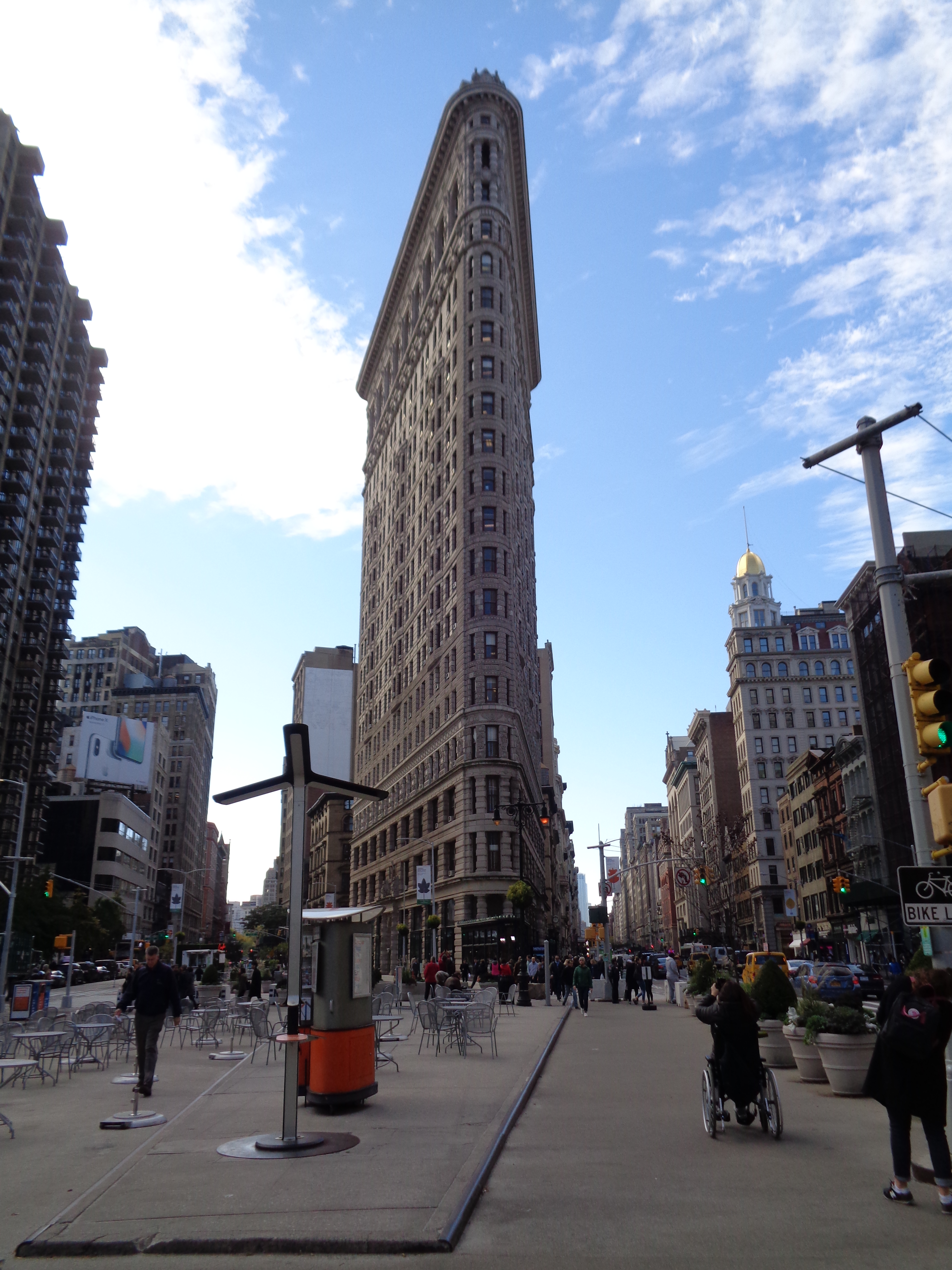 Looking south at the Flatiron Building from Flatiron Plaza, at 23rd Street between 5th Avenue and Broadway in the Flatiron District, Manhattan.